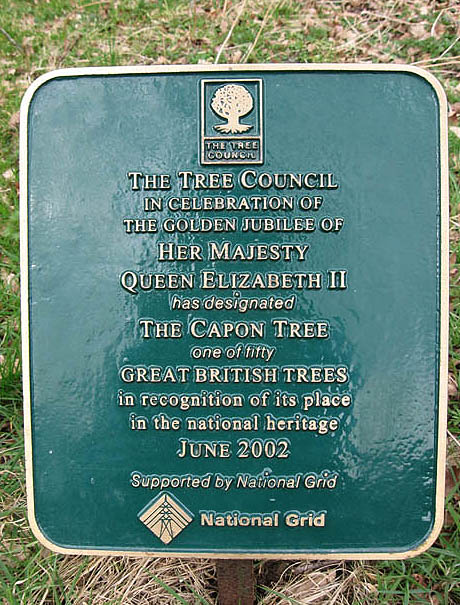 A sign at the Capon Tree. Commemorating the Capon Tree 744637 being listed by The Tree Council as one of fifty great British trees.